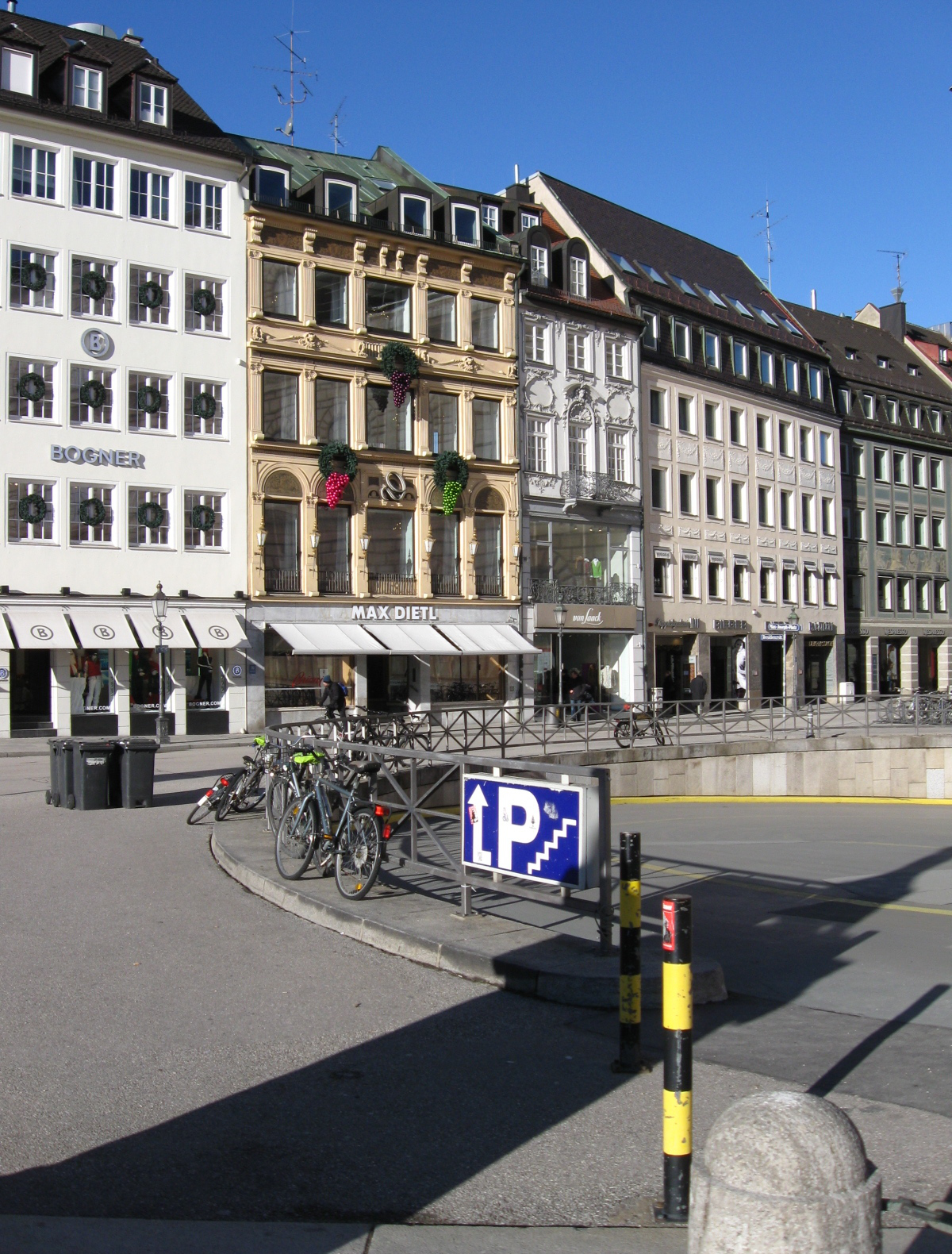 Max-Joseph-Platz / Residenzstraße in Munich (Germany)